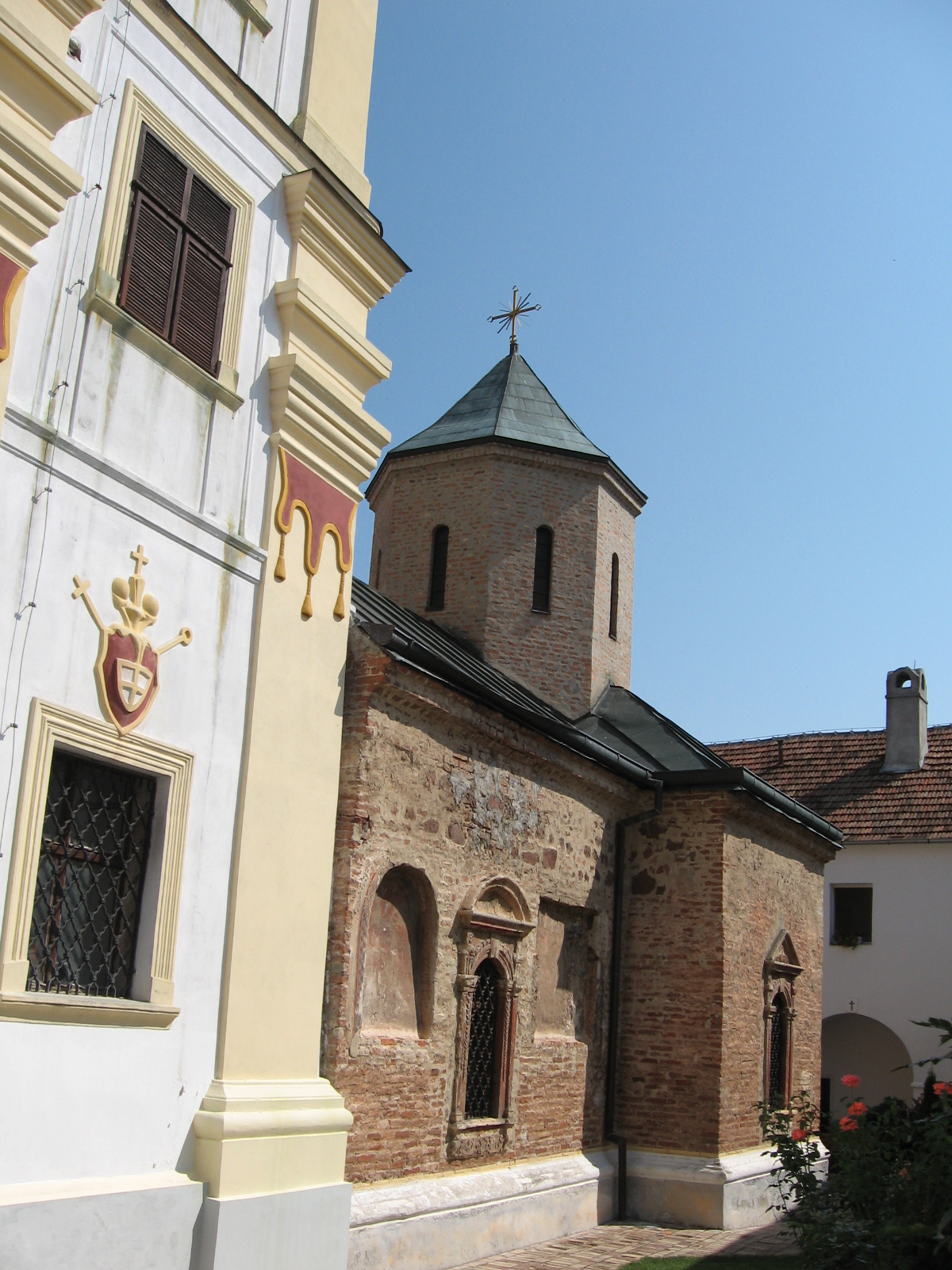 Monastery Velika Remeta - Serbia